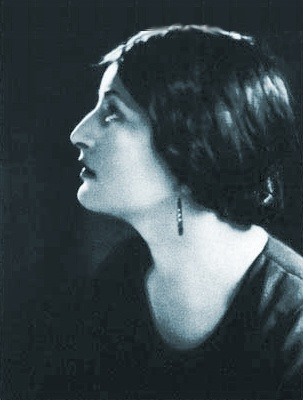 Publicity photo of Dagmar Godowsky from Stars of the Photoplay